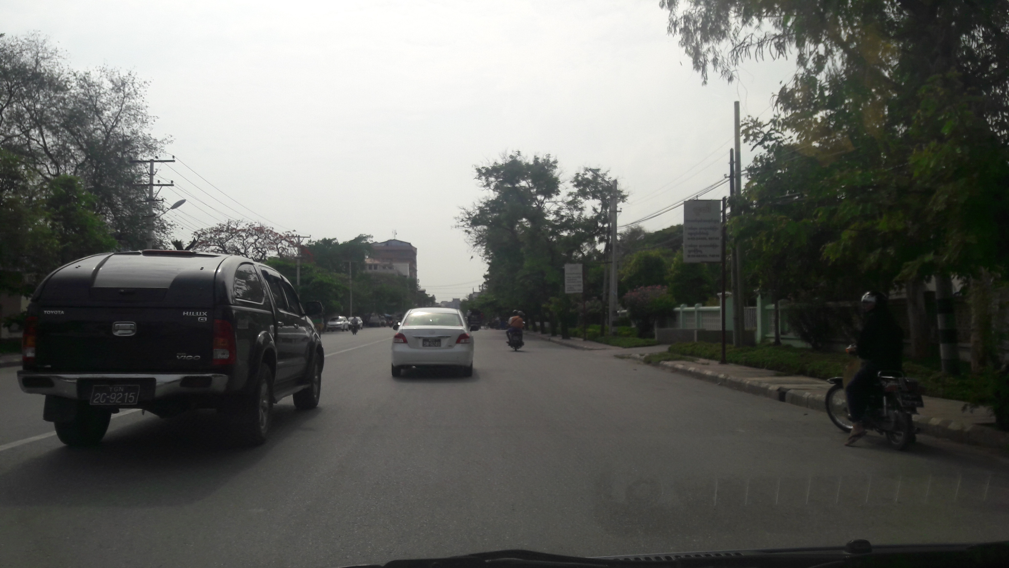 The 30th Road of Mandalay.